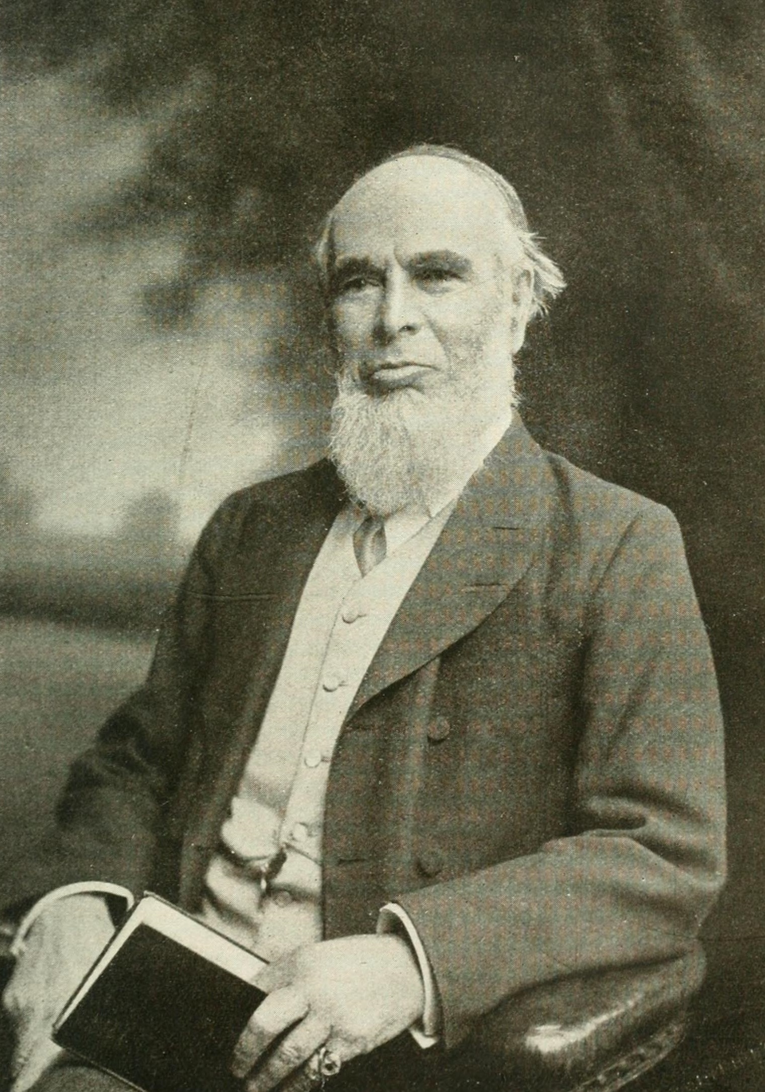 Portrait of Leonard Courtney of Penwith